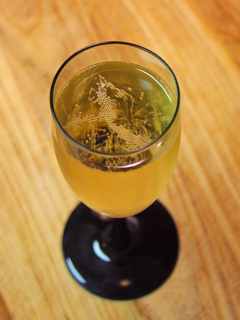 A glass of champagne